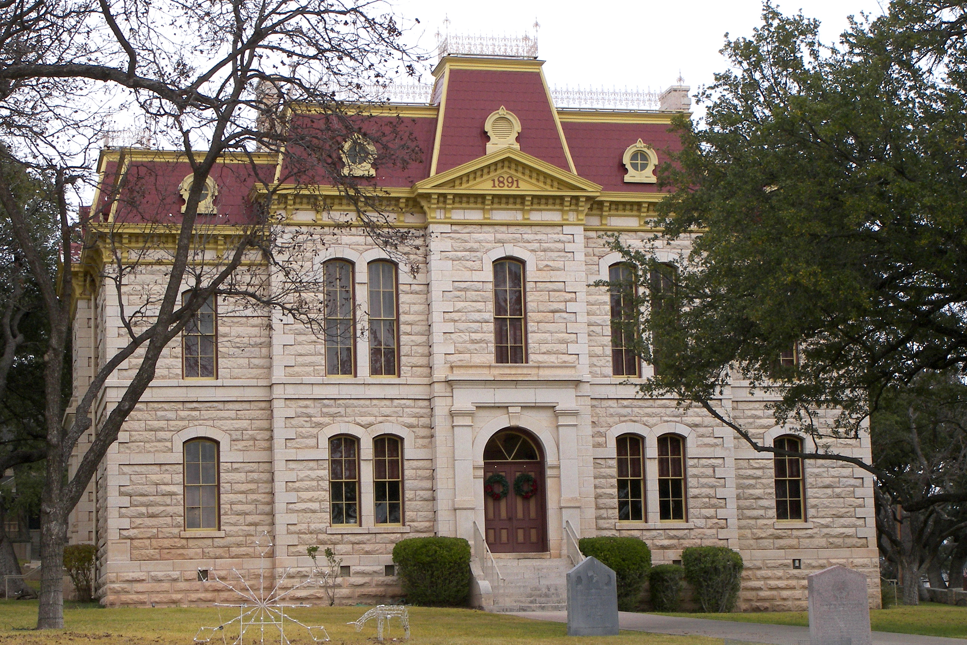 The Sutton County Courthouse located in Sonora, Texas, United States was built in 1891. The courthouse was designated a Recorded Texas Historic Landmark in 1962 and listed on the National Register of Historic Places on July 15, 1977.